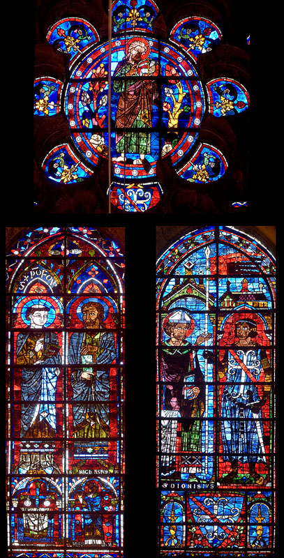 Clerestory window on the east side of the south transept of Chartres Cathedral (bay 116) showing (left) St Christopher and (right) St Denis handing the Oriflamme to Jean Clement, Constable of France.